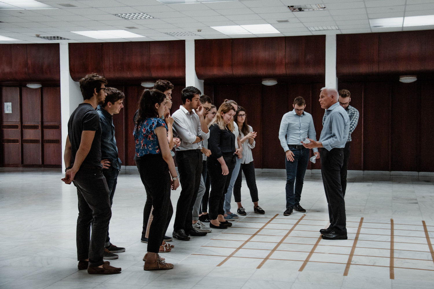 Herman Van den Broeck is teaching in Mathias Corvinus Collegium (Budapest, Hungary)